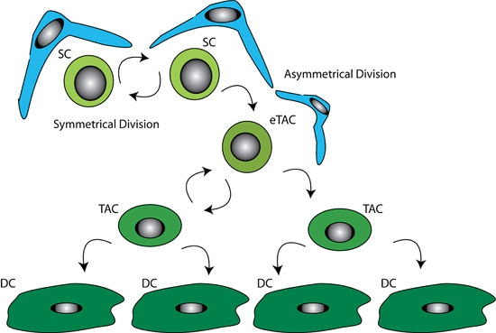 It is thought LESC undergo asymmetric cell division producing a stem cell, which remains in the stem cell niche to repopulate the stem cell pool, and a daughter early transient amplifying cell (eTAC). This more differentiated eTAC is removed from the stem cell niche and is able to divide further producing transient amplifying cells (TAC), eventually giving rise to terminally differentiated cells (DC). The double arrows represent the self-renewing capability of the stem cells. The supporting niche cells (blue) surround the stem cells (light green).